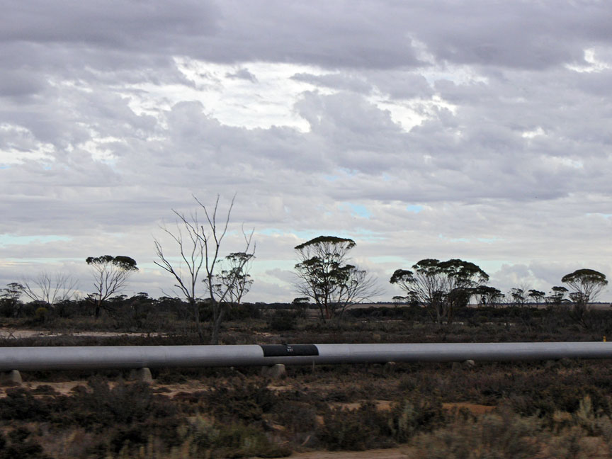 Part of the Goldfields pipeline along route 94 - Western Australia. Taken by myself with an Olympus c8080w.